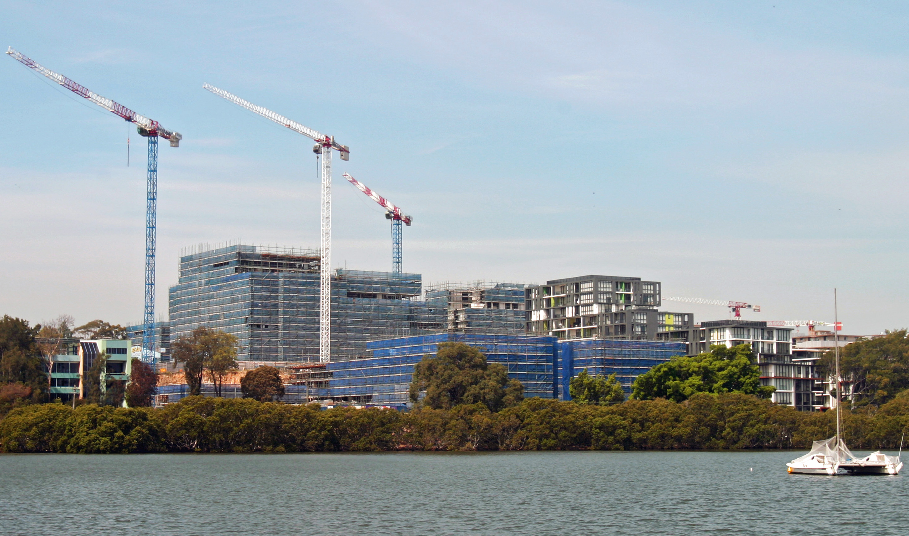 Substantial redevelopment of industrial land at Melrose Park, New South Wales to build 5,000 new apartments - construction underway on 20 November 2016. Photo taken from Meadowbank wharf.